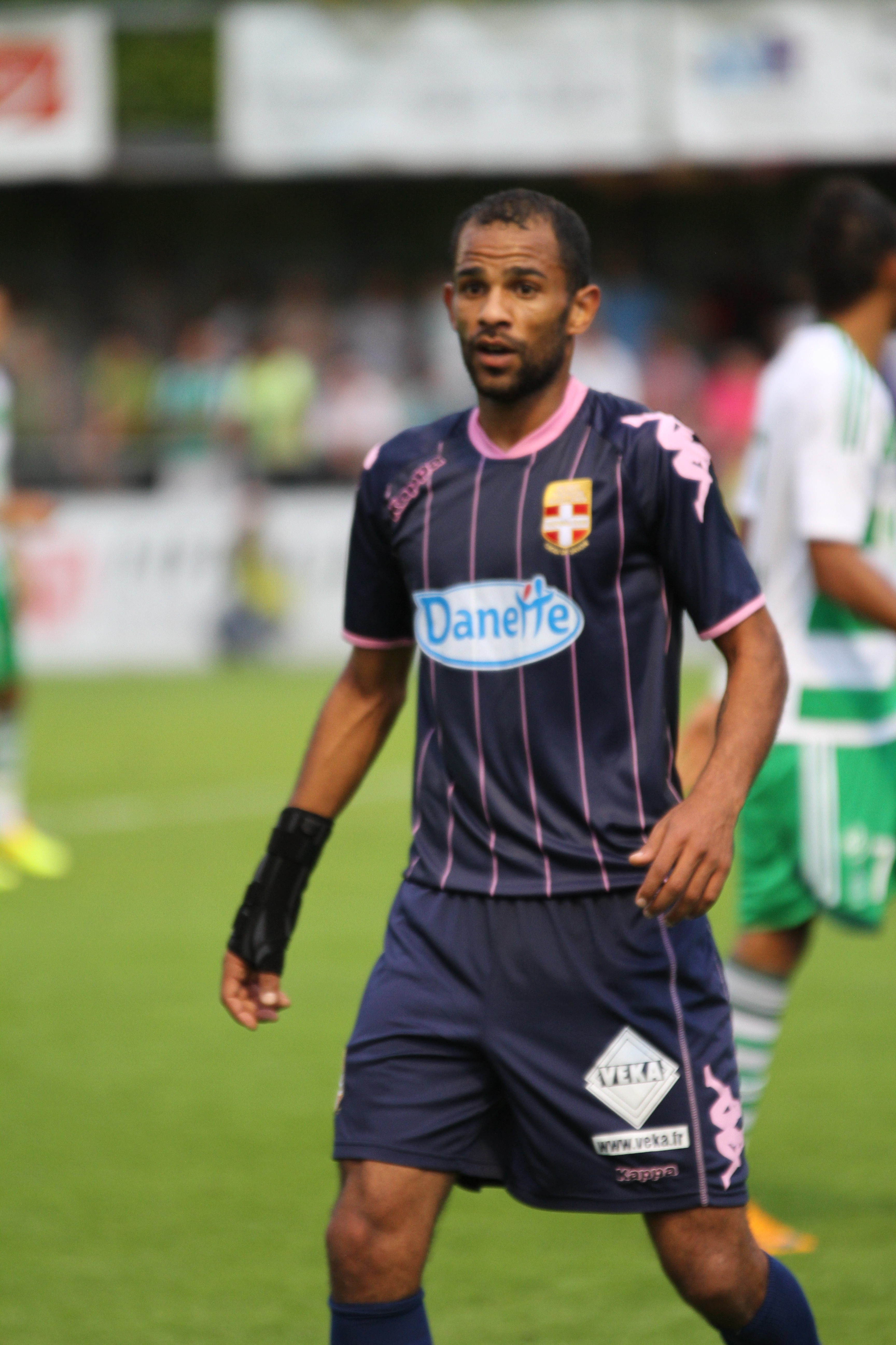 Saber Khlifa